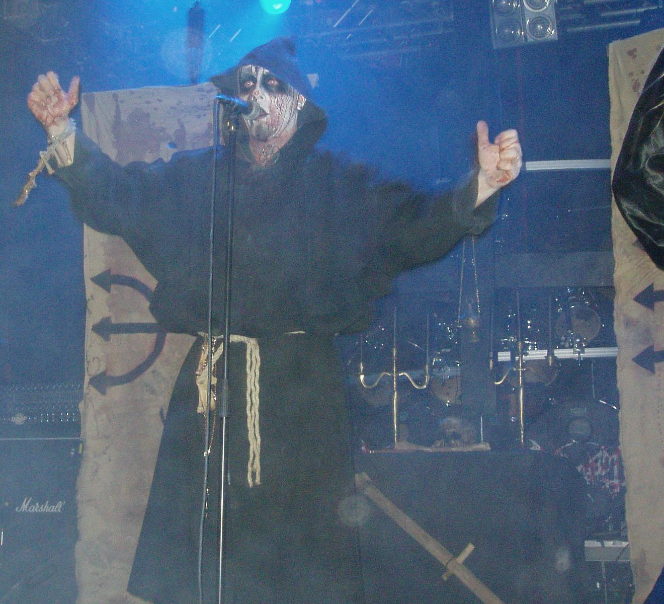 Finnish black metal band Behexen @ Nosturi 20.11.2009.